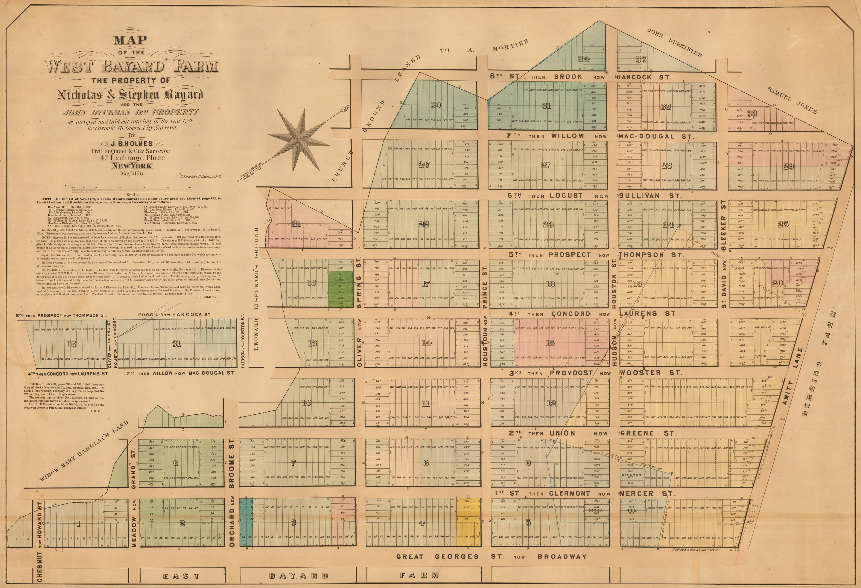 Title: Map of the West Bayard Farm, the Property of Nicholas and Stephen Bayard, and the John Dyckman Dcd. Property, as surveyed and laid out into lots in the year 1788 by Casimir Th. Goerk [sic], City Surveyor